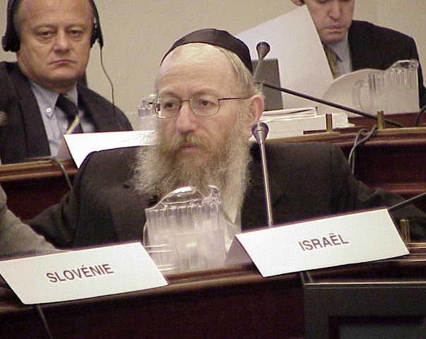 Yakov Litzman, Chairman of the Finance Committee of the Israeli Knesset, listened to a conference witness answer his question. Also pictured is Cofer Yazicoglu (back) a member of the Budget Committee of the Turkish Parliamant (photo caption). Taken at the second OECD conference.(